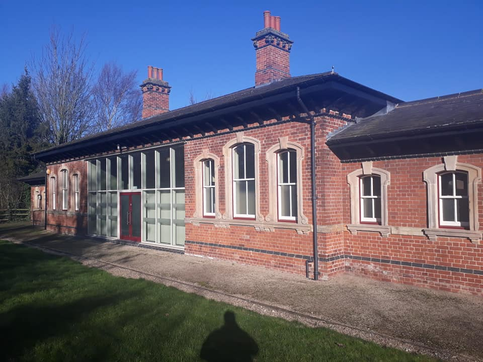 By Joshua Guest